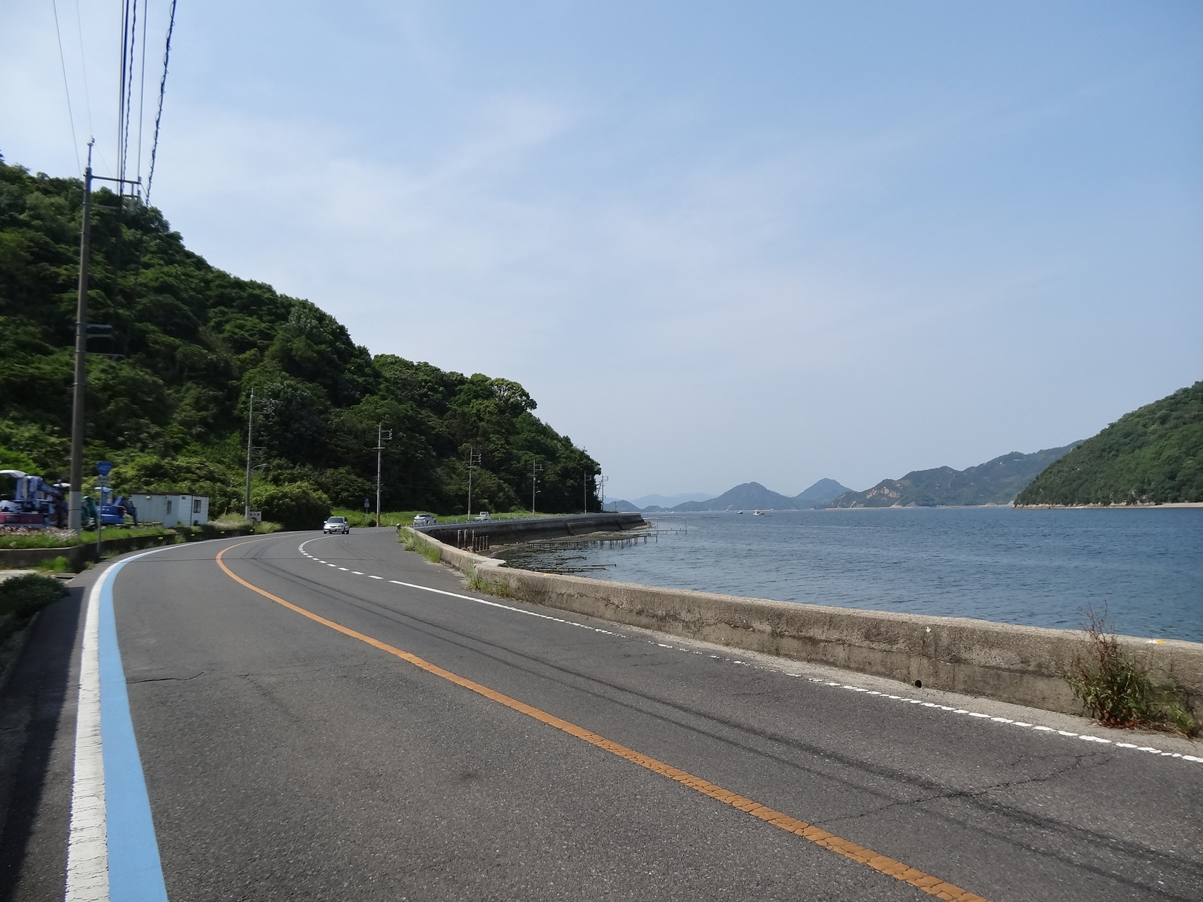 "National Route 487" in Takata, Nomi, Etajima City, Hiroshima Prefecture, Japan)